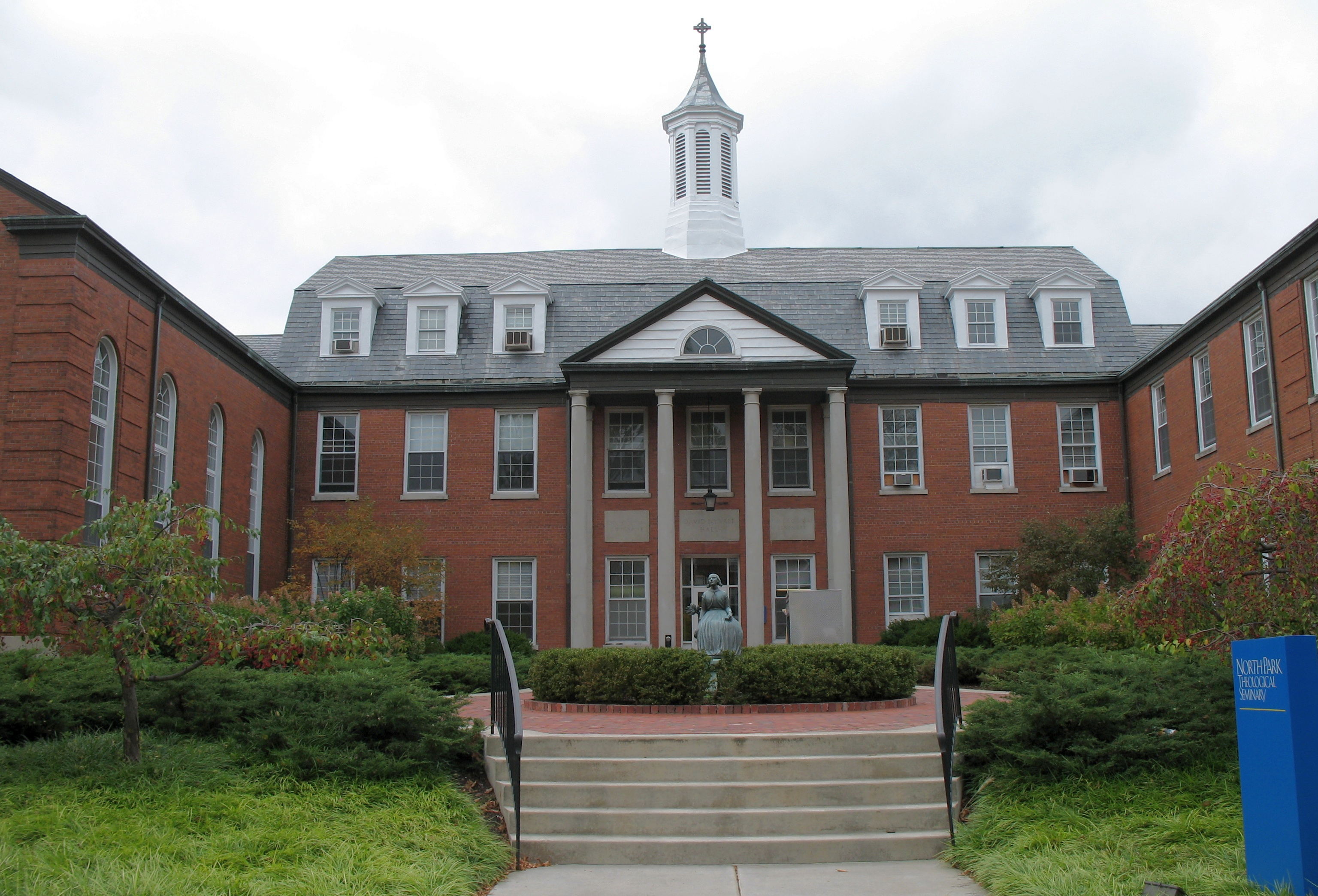 Nyvall Hall (Theological seminary) of North Park University in Chicago's North Park neighborhood